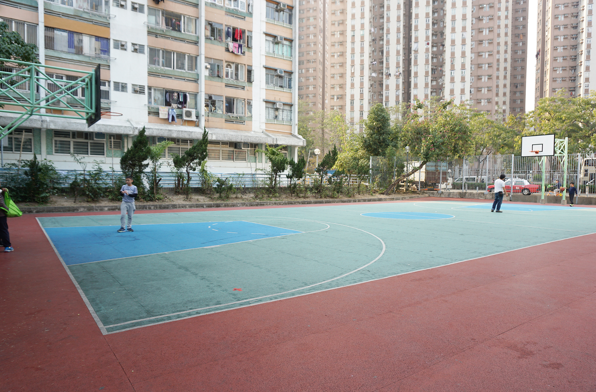 Lung Hang Estate in Tai Wai, Hong Kong.